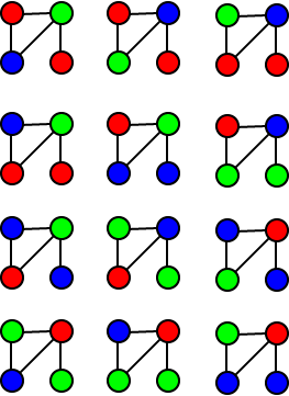 All valid three-color colorings for a 4-node graph